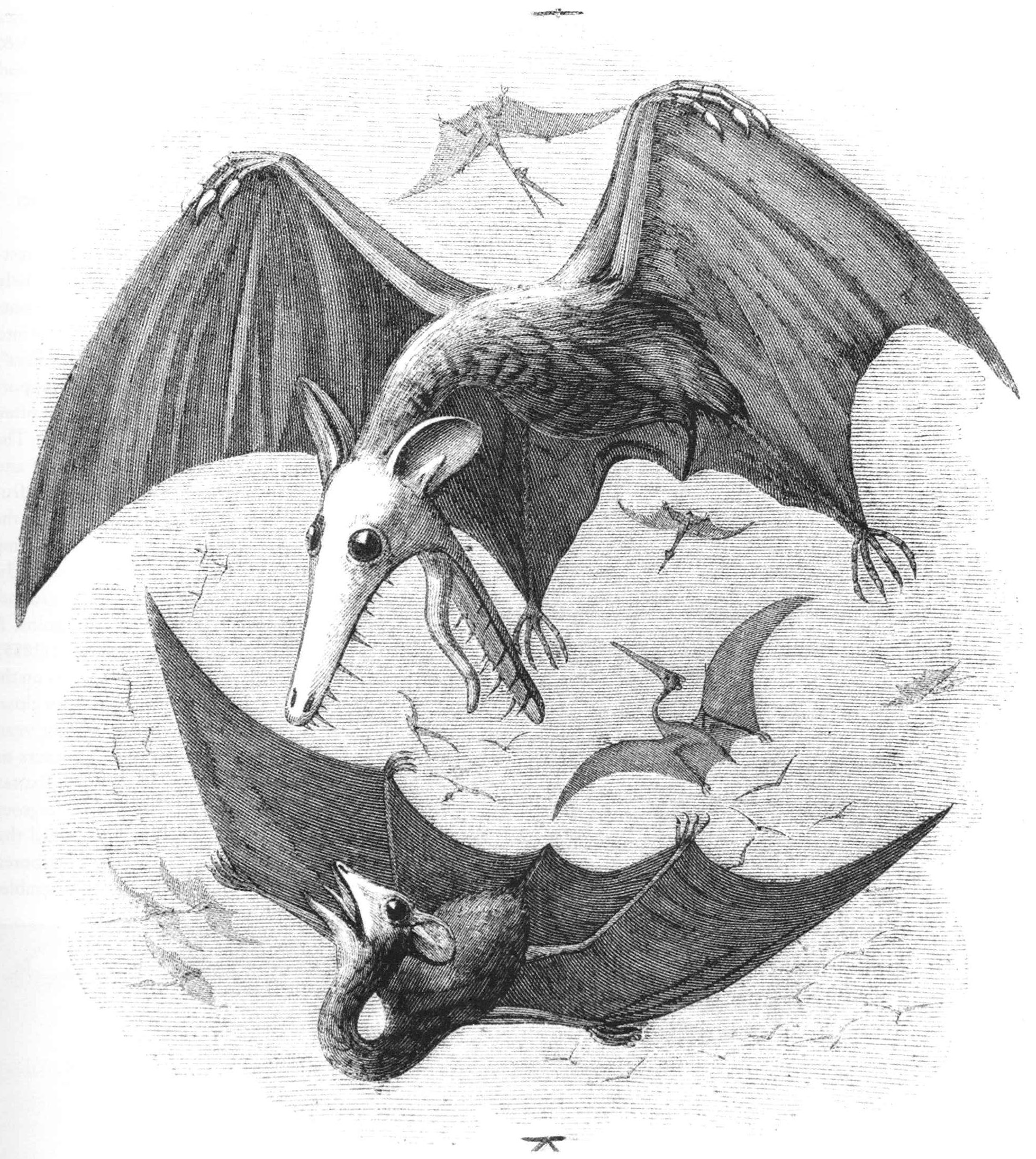 Life reconstruction of pterodactyls as flying marsupials by English naturalist Edward Newman in 1843